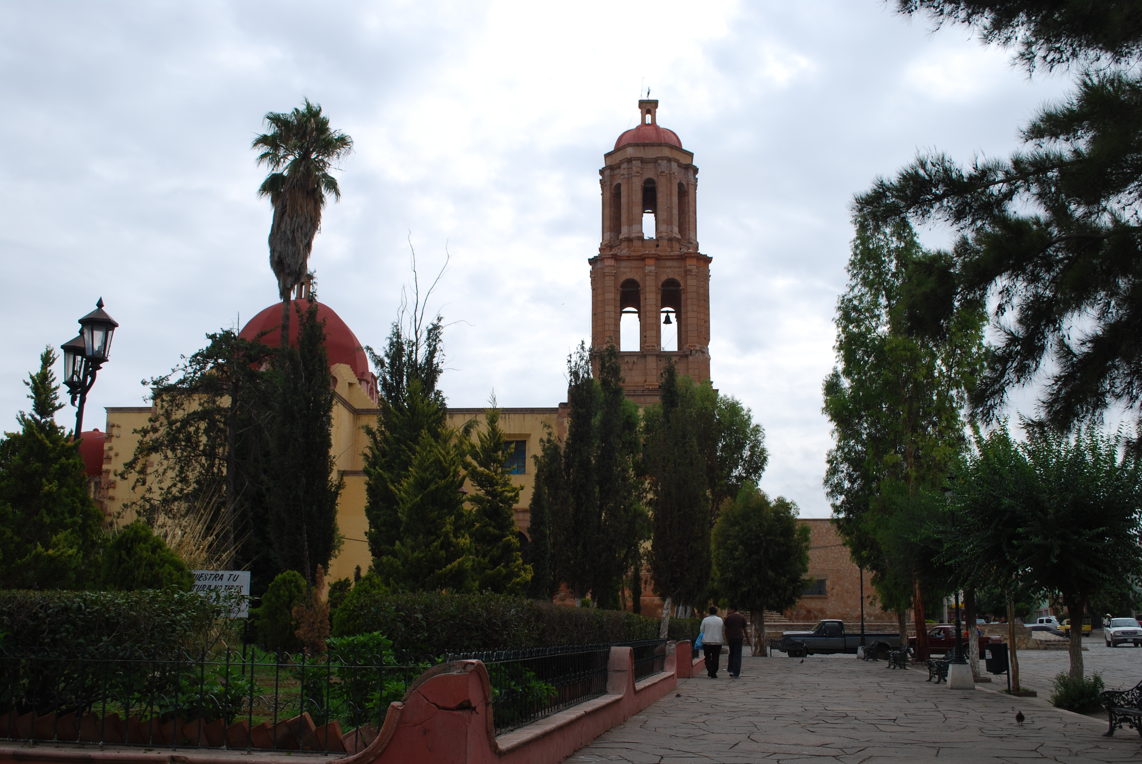 View of the Jardin Zaragoza square and Santo Domingo church in Sombrerete, Zacatecas